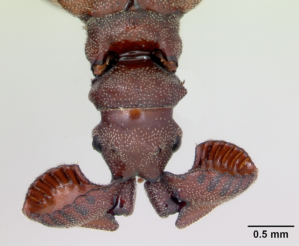 Paussus scyphus decorsei